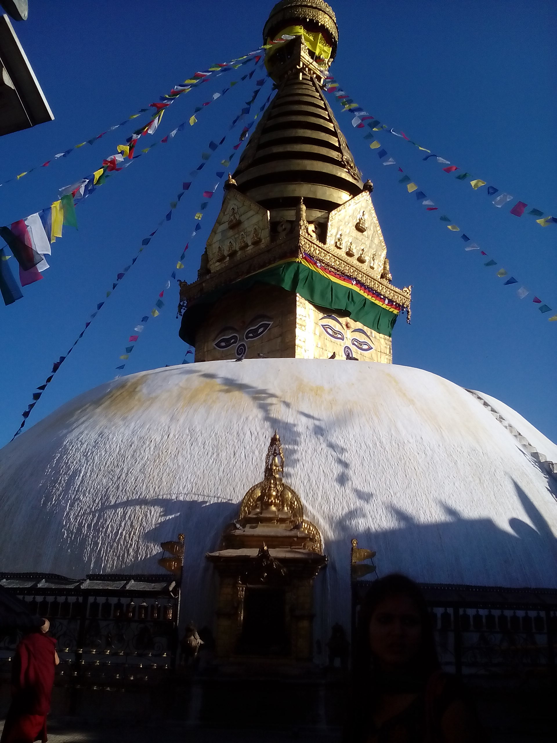 This is an image of Swayambhu Nath temple situated in Kathmandu of Nepal.